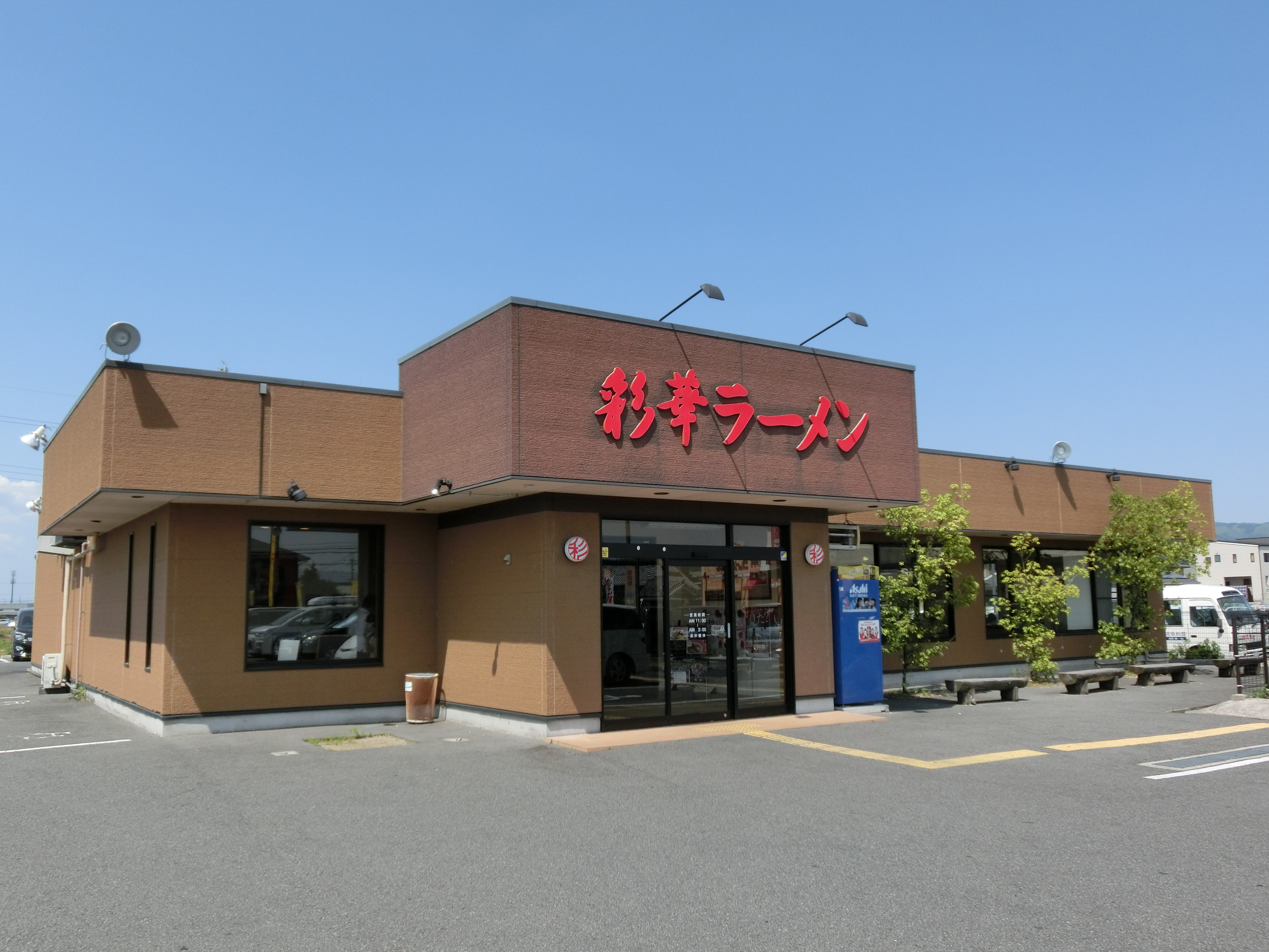 Saika Ramen Head Store